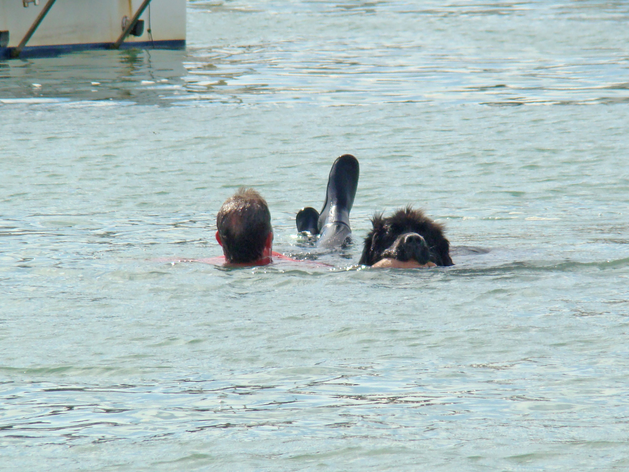 Sea-rescue exercise by a Newfoundland.